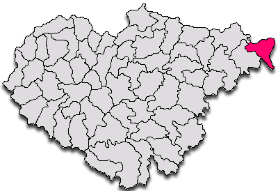 Map Salaj County Romania